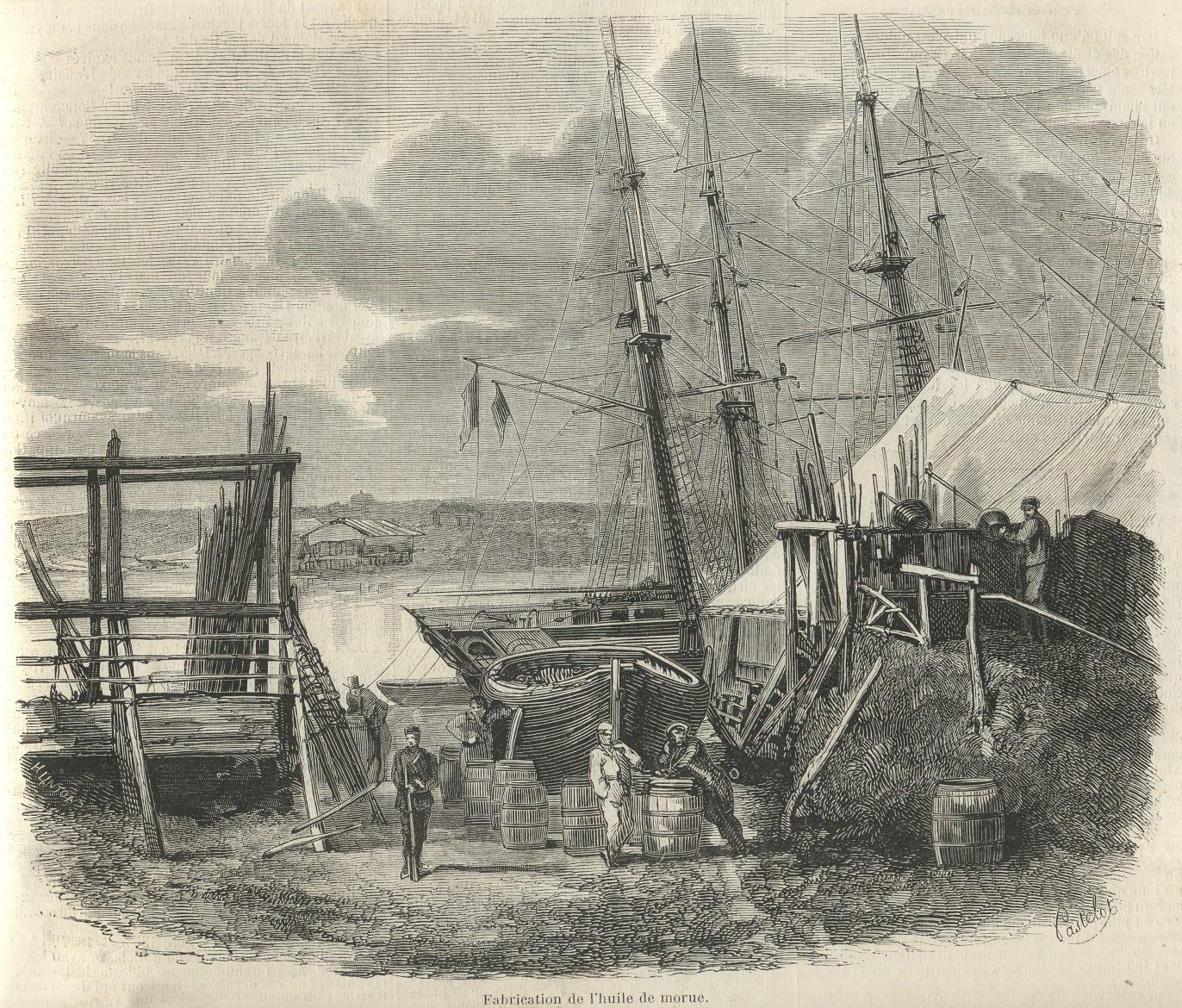 The cod fishery in Newfoundland in 1858, making cod oil